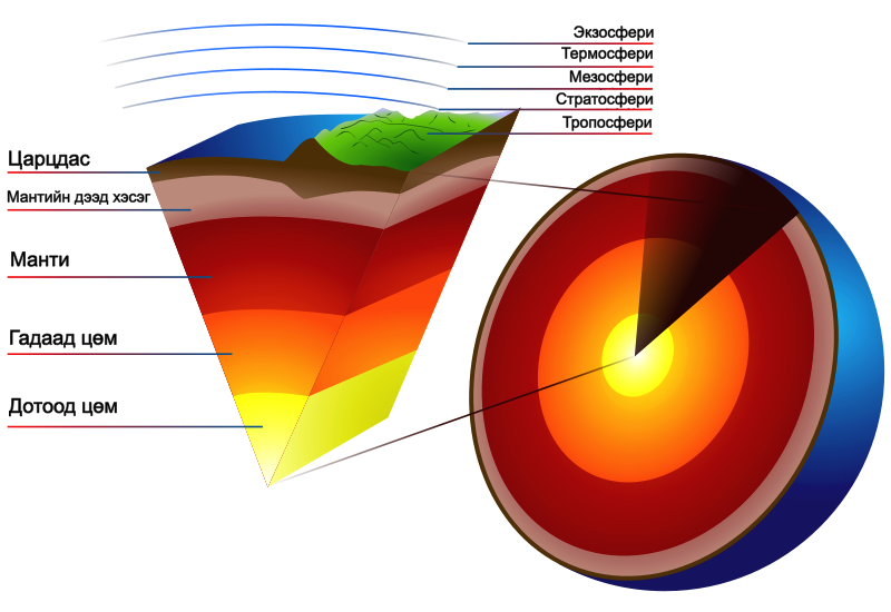 Earth and atmosphere cutaway illustration